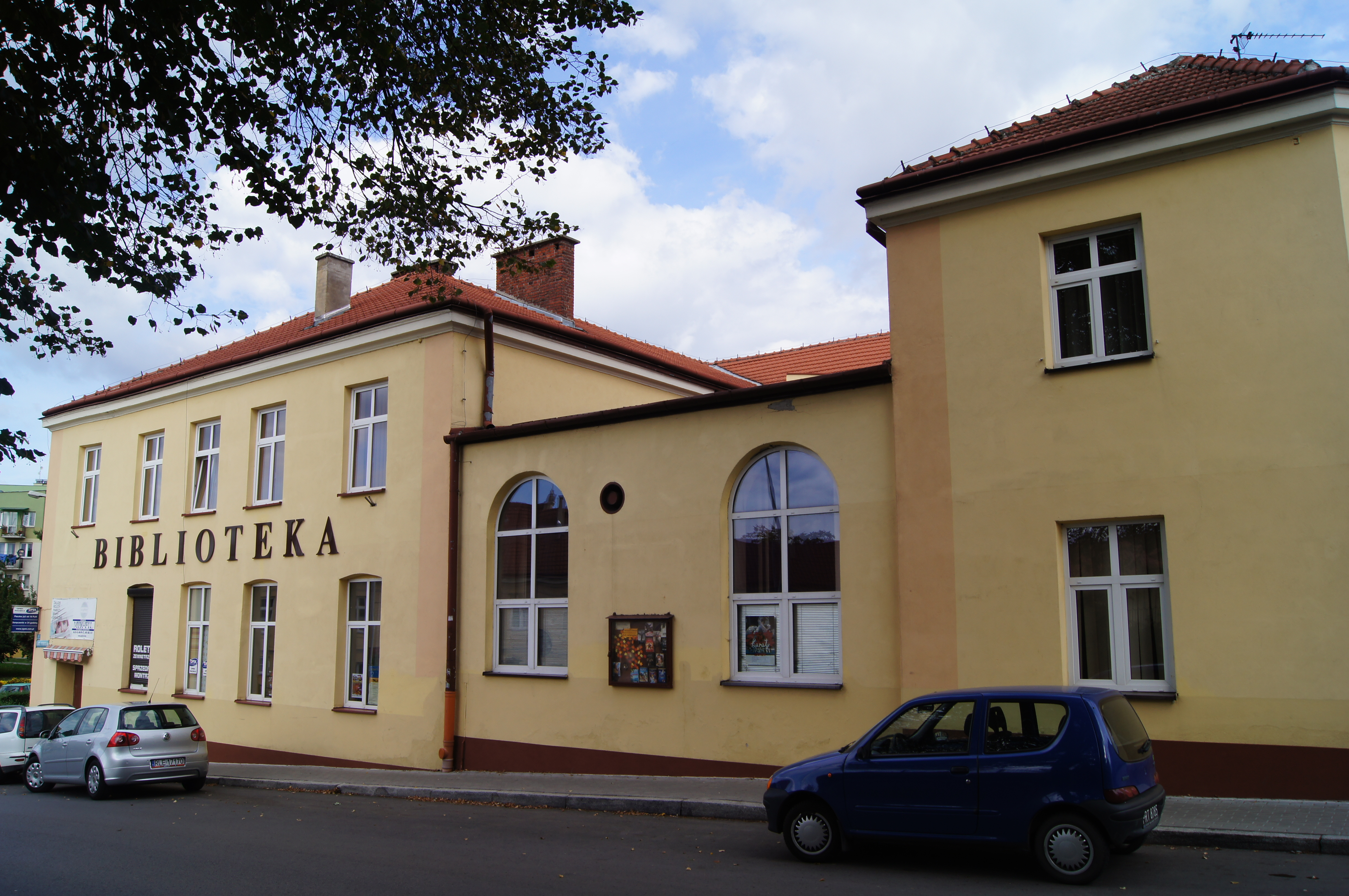 Building of "Sokół" Society in Przeworsk